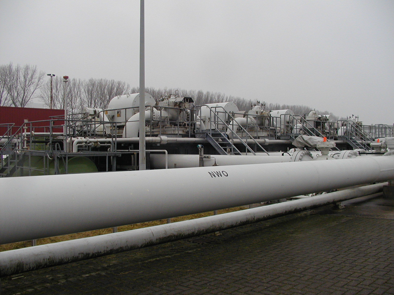 Four pumps in series build the pump station at the start of a 400 km, 28" crude oil pipeline